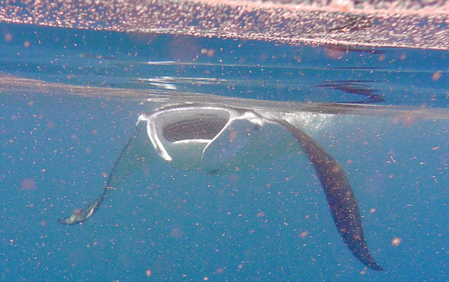 Manta alfredi foraging (manta ray ram feeding - swimming against the tidal current with its mouth open and sieving zooplankton from the water).